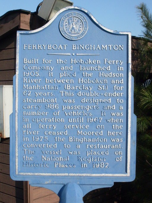 Historical information sign−marker about the Binghamton Ferryboat — located in Edgewater, New Jersey. A retired ferryboat that operated from 1905 to 1967 transporting passengers across the Hudson River between Manhattan and Hoboken.